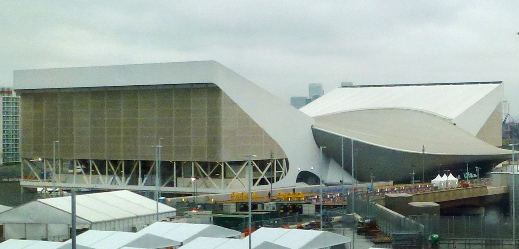 The London Aquatics Centre (cropped from File:Cmglee London Olympic Park from John Lewis.jpg)